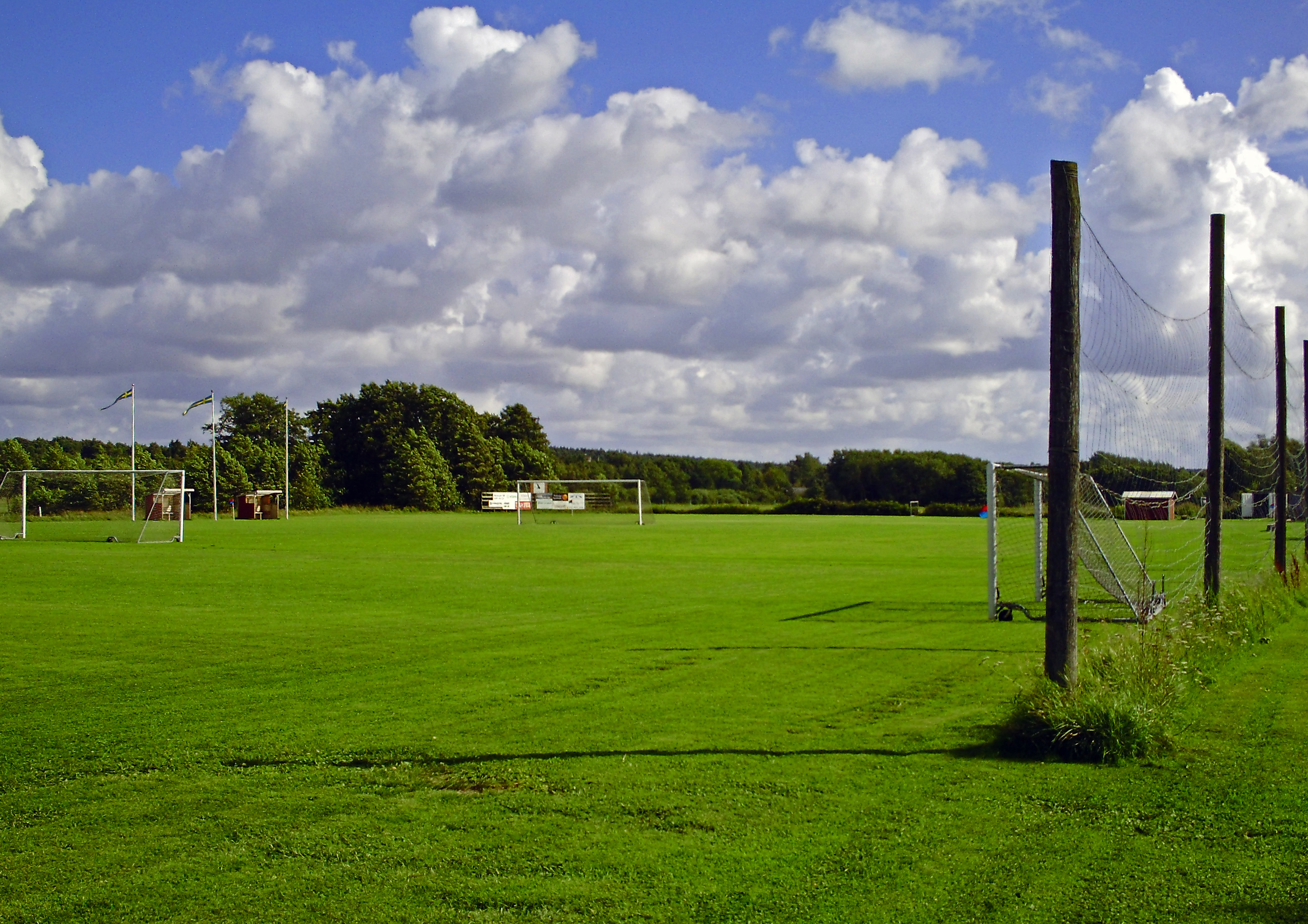 Klostervallen in Åskloster, Halland, Sweden, home of the football club Åsklosters IF.